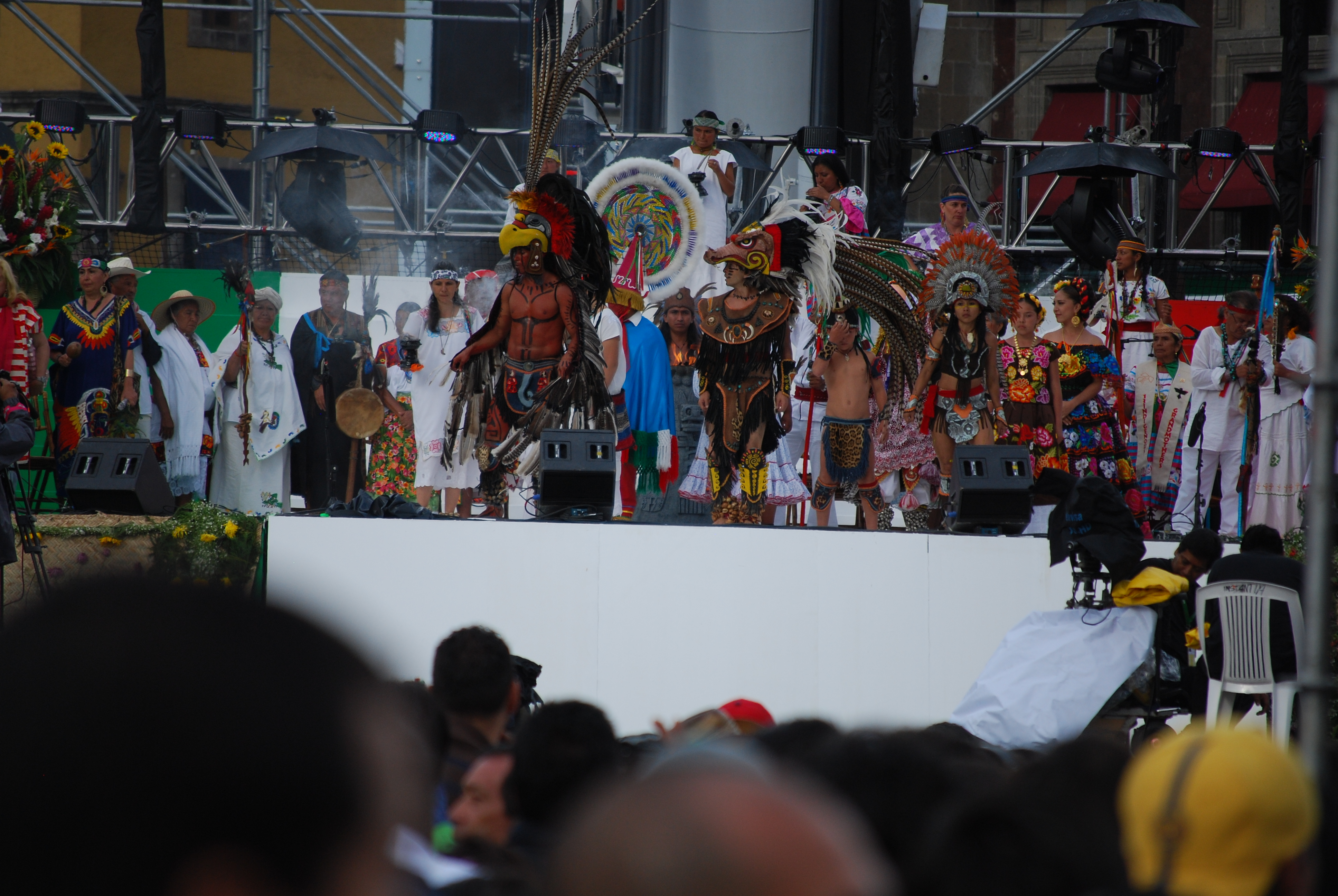 Indigenous dancers on the northeast stage of the Zocalo before the Grito 2010